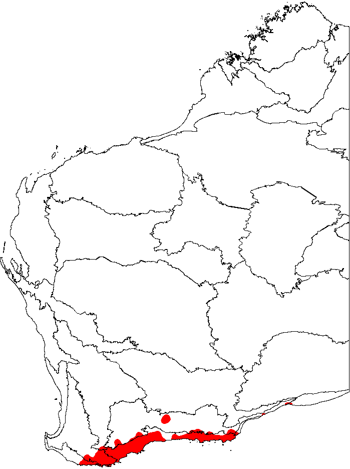 This is a map of Western Australia, showing the distribution of Adenanthos cuneatus (Coastal Jugflower) superimposed on a background of the IBRA 6.1 biogeographic regions.